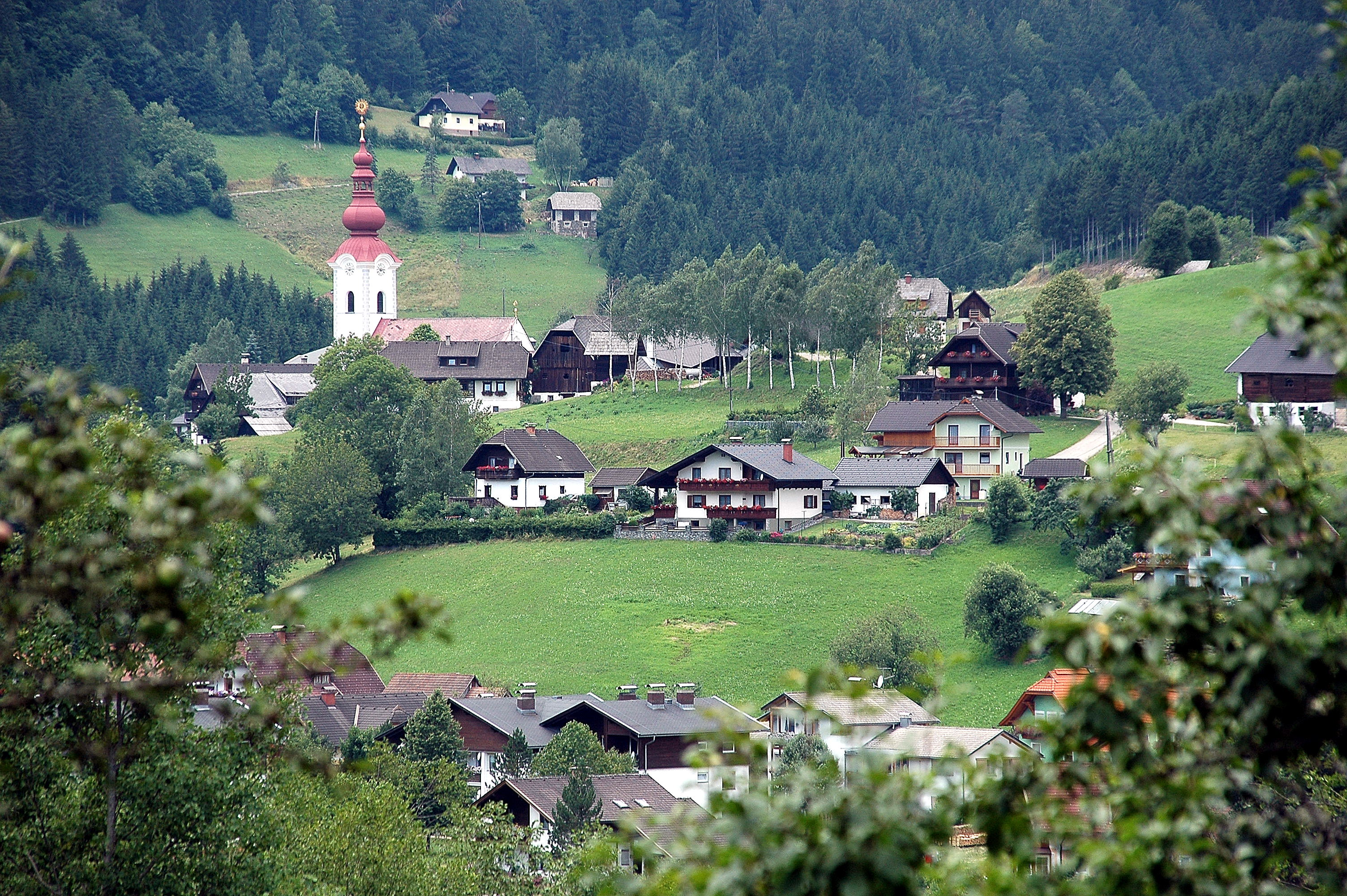 Village of Sirnitz, Carinthia, Austria